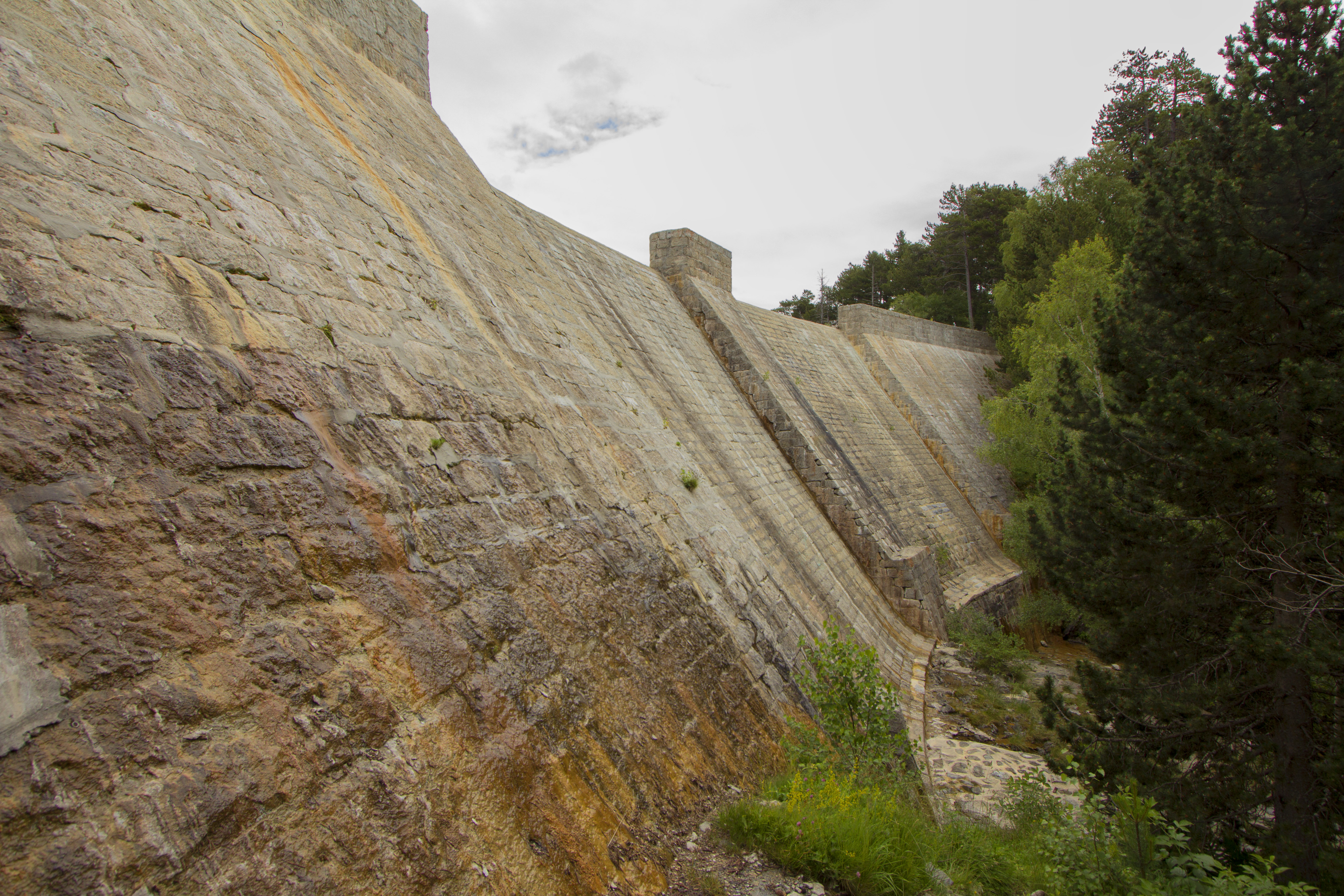 Dam of Sant Maurici hydroelectric power plant, Espot (Catalan Pyrenees)